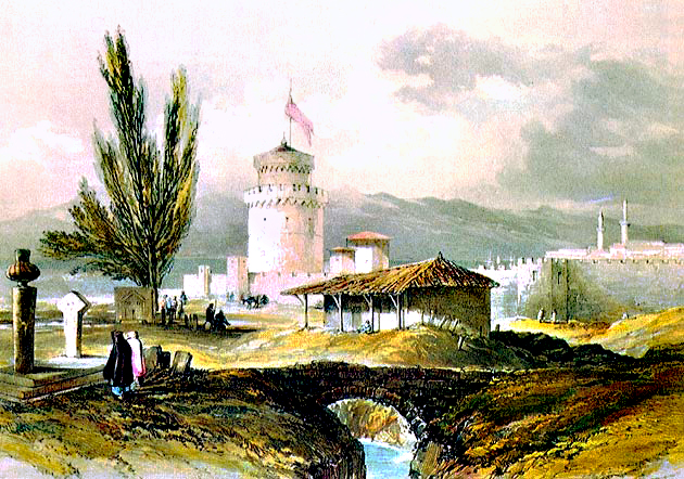 White Tower of Thessaloniki in a painting of the first middle of 19th century